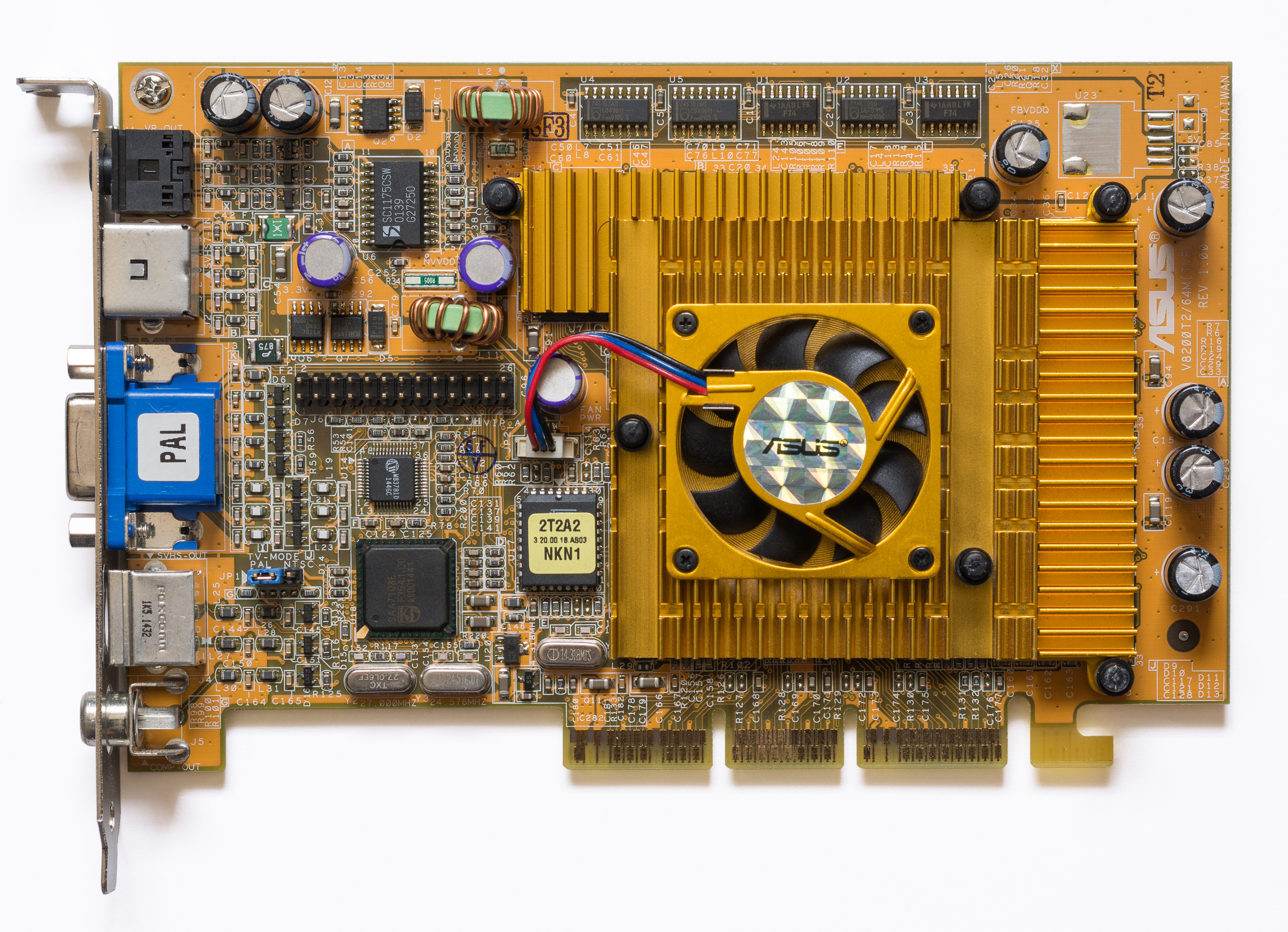 ASUS V8200T2 Deluxe GeForce3 Ti200